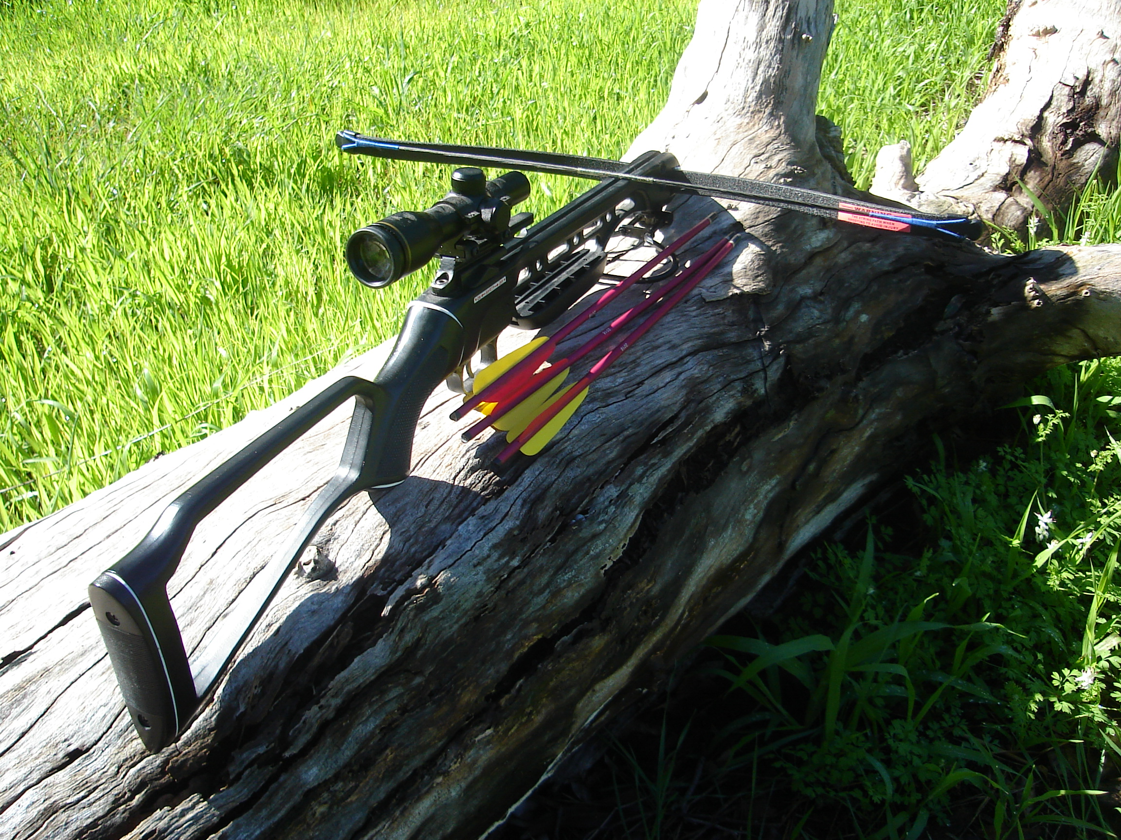 The photo was taken by me with a sony cybershot camera. Digital photograph of a recurve crossbow with ammunition. The crossbow has a draw weight of 150 lb and uses a Nykron telescopic sight. 2304x1728 pixels